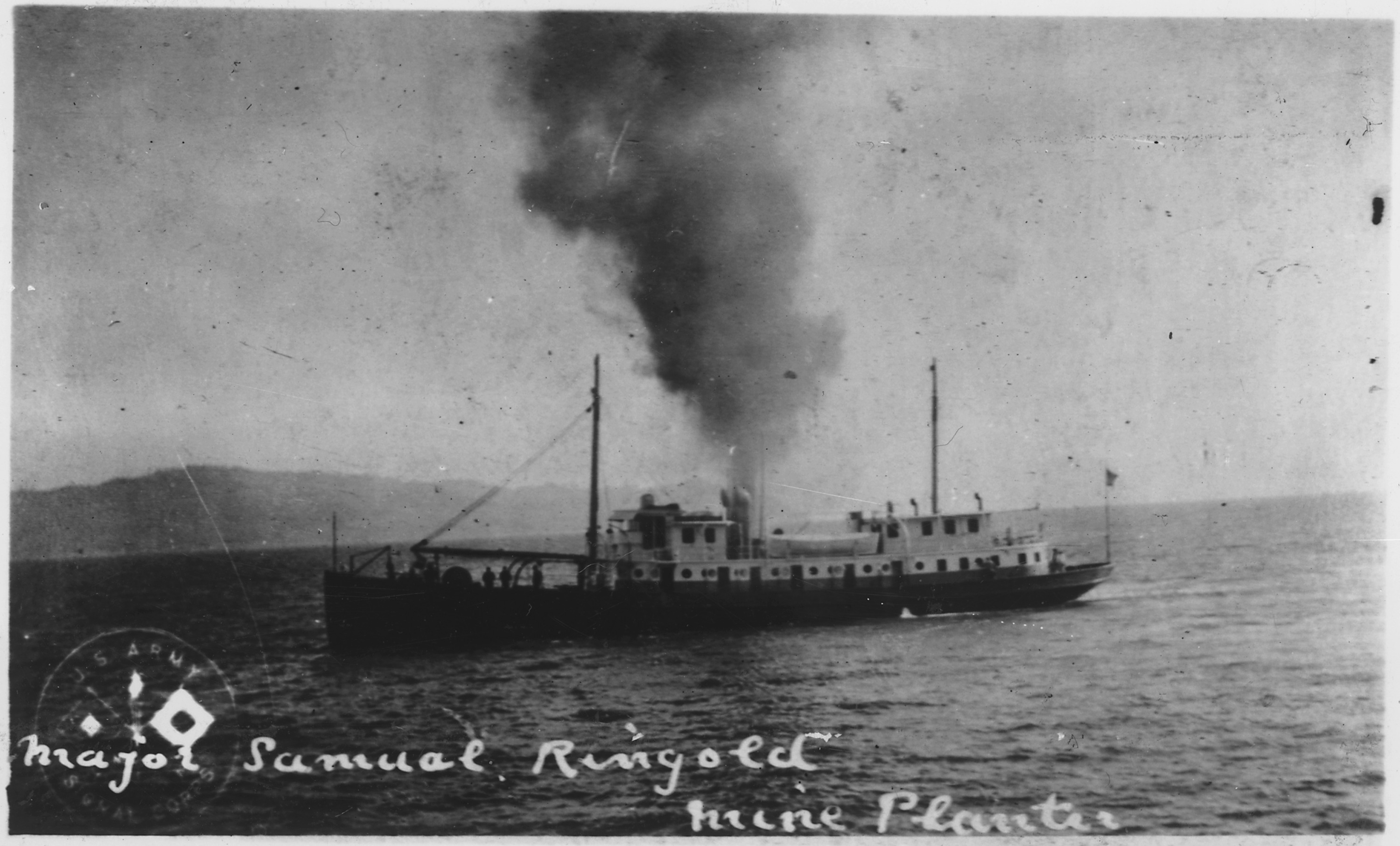 Scope and content: Beginning with the Civil War, the U.S. Army recognized a need to provide for coastal defenses in the Pacific NW along the Columbia River and in the Puget Sound. A number of forts, many no longer in service, were built for this purpose.